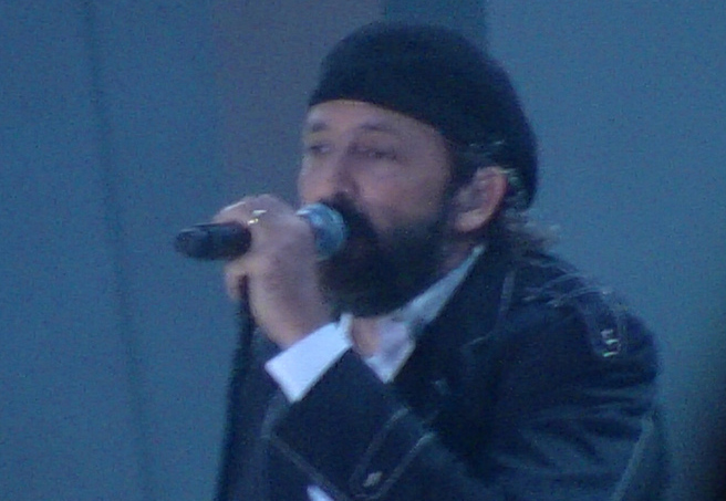 adjusted version of Image:Juan_Luis_Guerra2.jpg